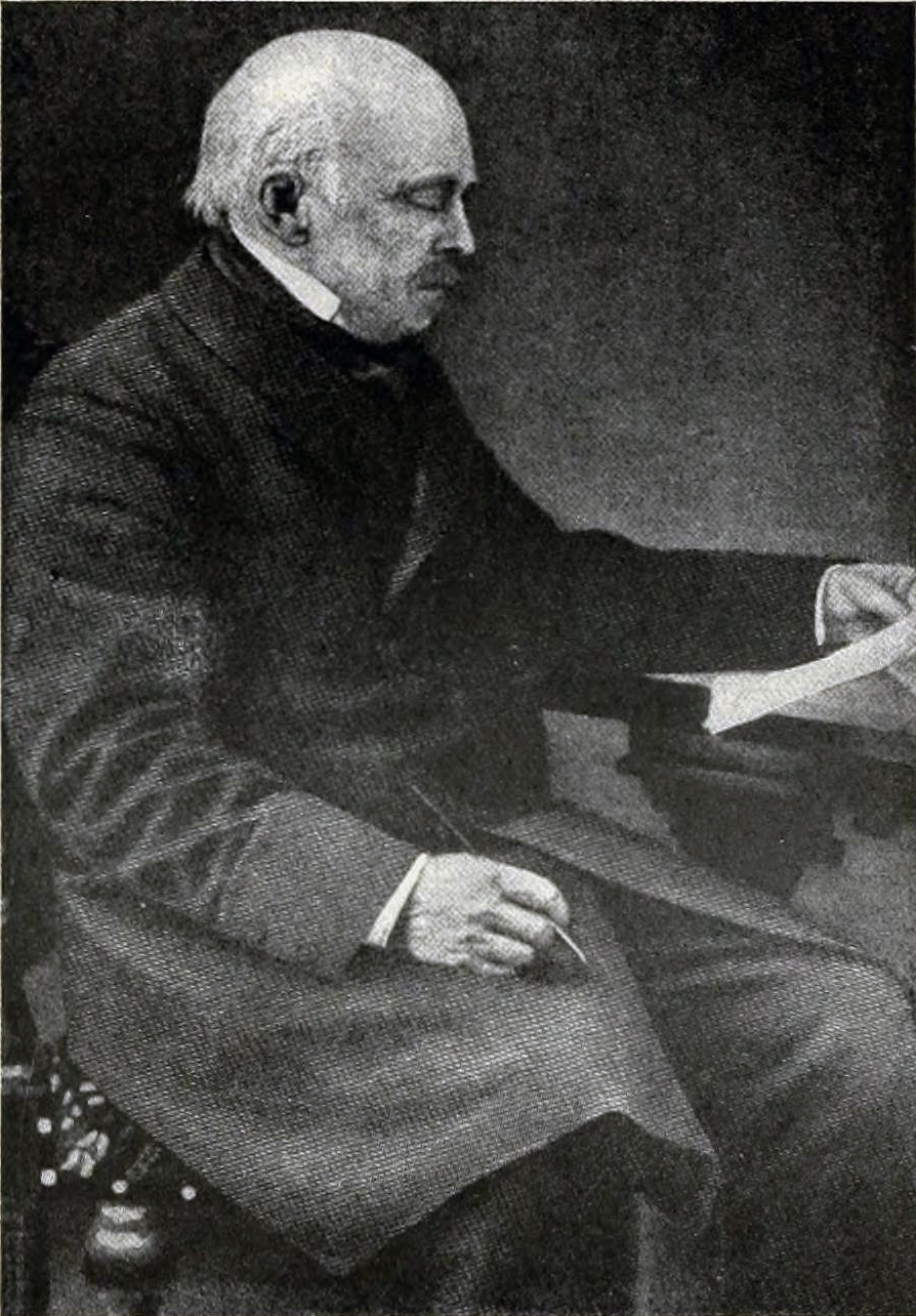 Portrait of Amos Adams Lawrence, son of Amos Lawrence and nephew of Abbott Lawrence, a noted abolitionist, and founding figure in University of Kansas and 1Lawrence University